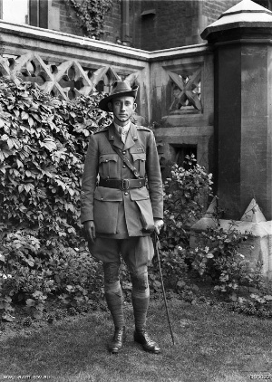 AWM caption : London. Informal portrait of Lieutenant Clifford William King Sadlier VC, 51st Battalion. He was awarded the Victoria Cross for action in the second battle for Villers-Bretonneux on 24 April-25 April 1918. Note the four service stripes on the right sleeve.